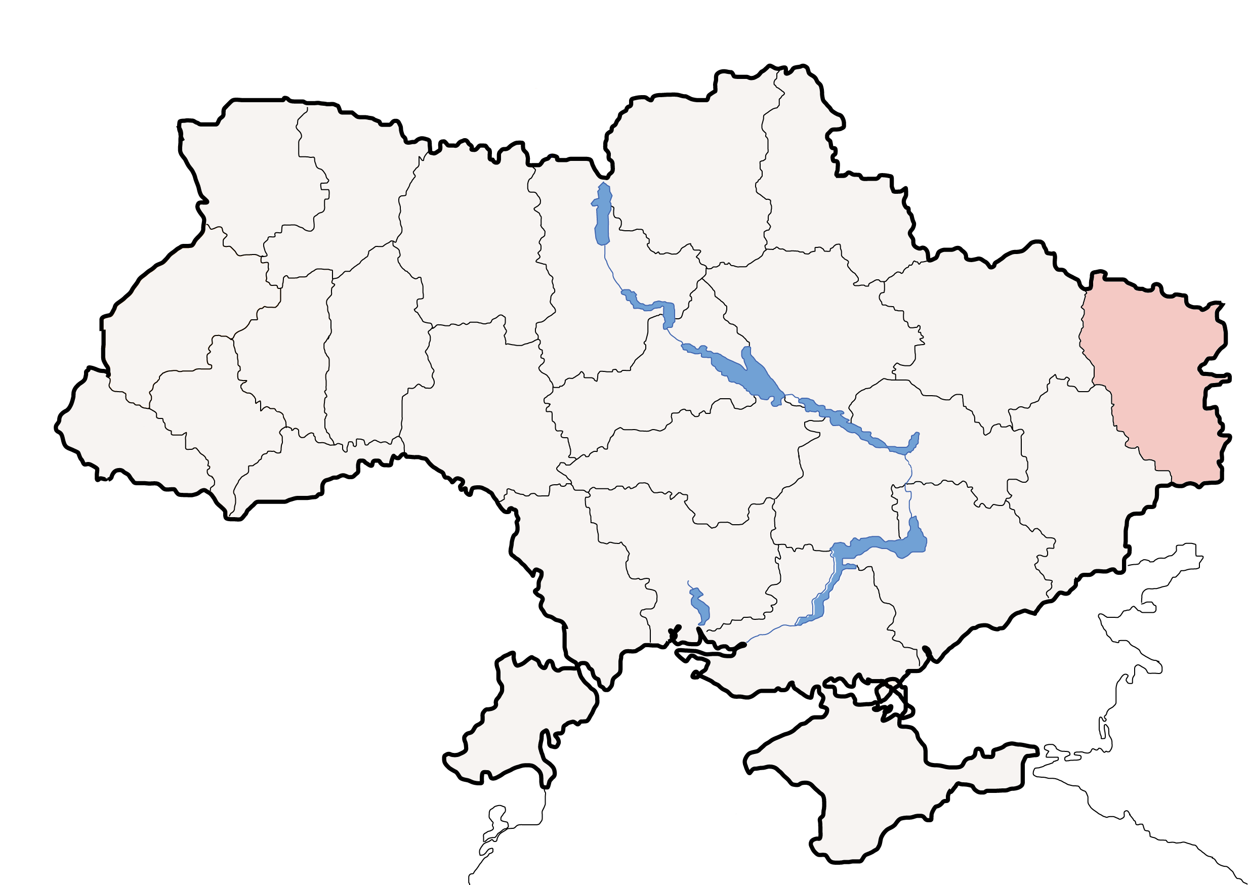 Political map of Ukraine, highlighting Luhansk Oblast